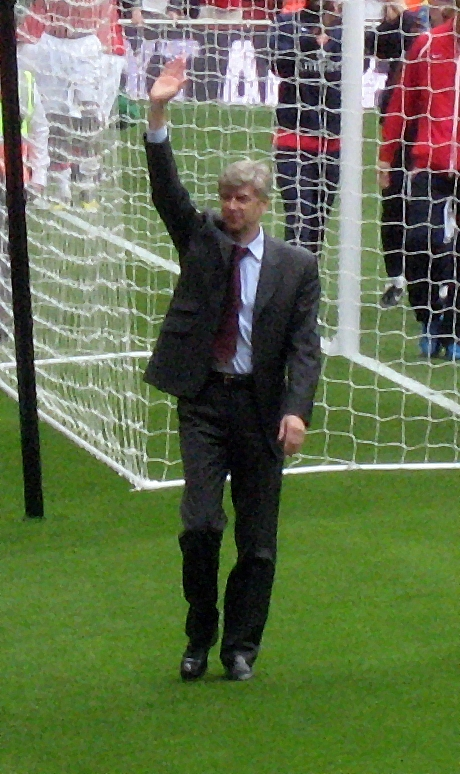 Arsène Wenger, French football manager.